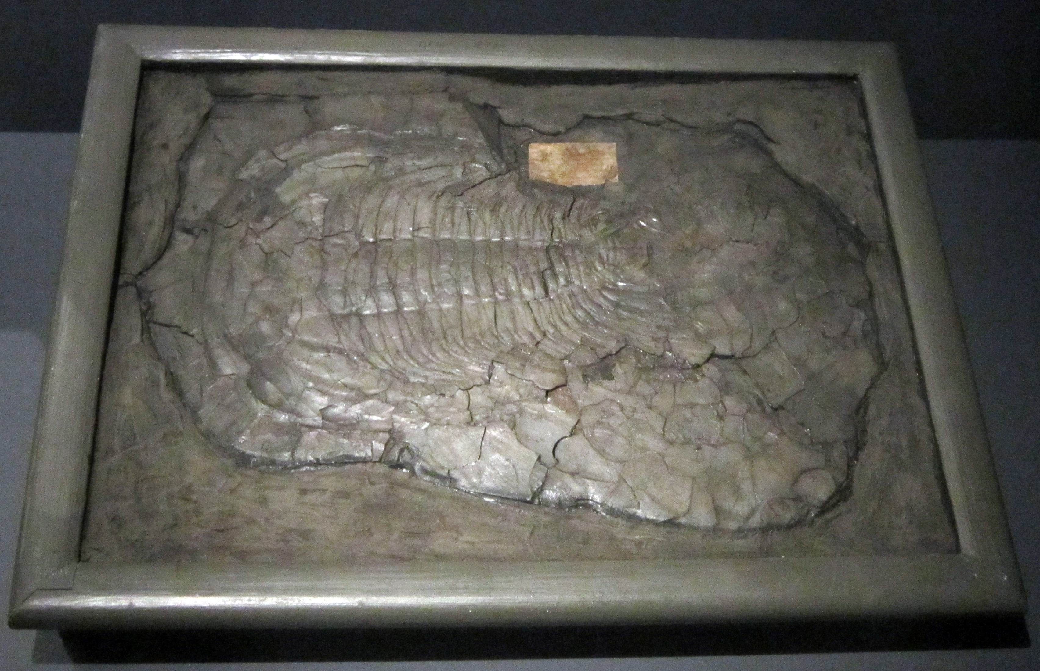 Paradoxides paradoxissimus (formerly Entomostracites) specimen that was described by Linnaeus, Zoological Museum of Copenhagen.